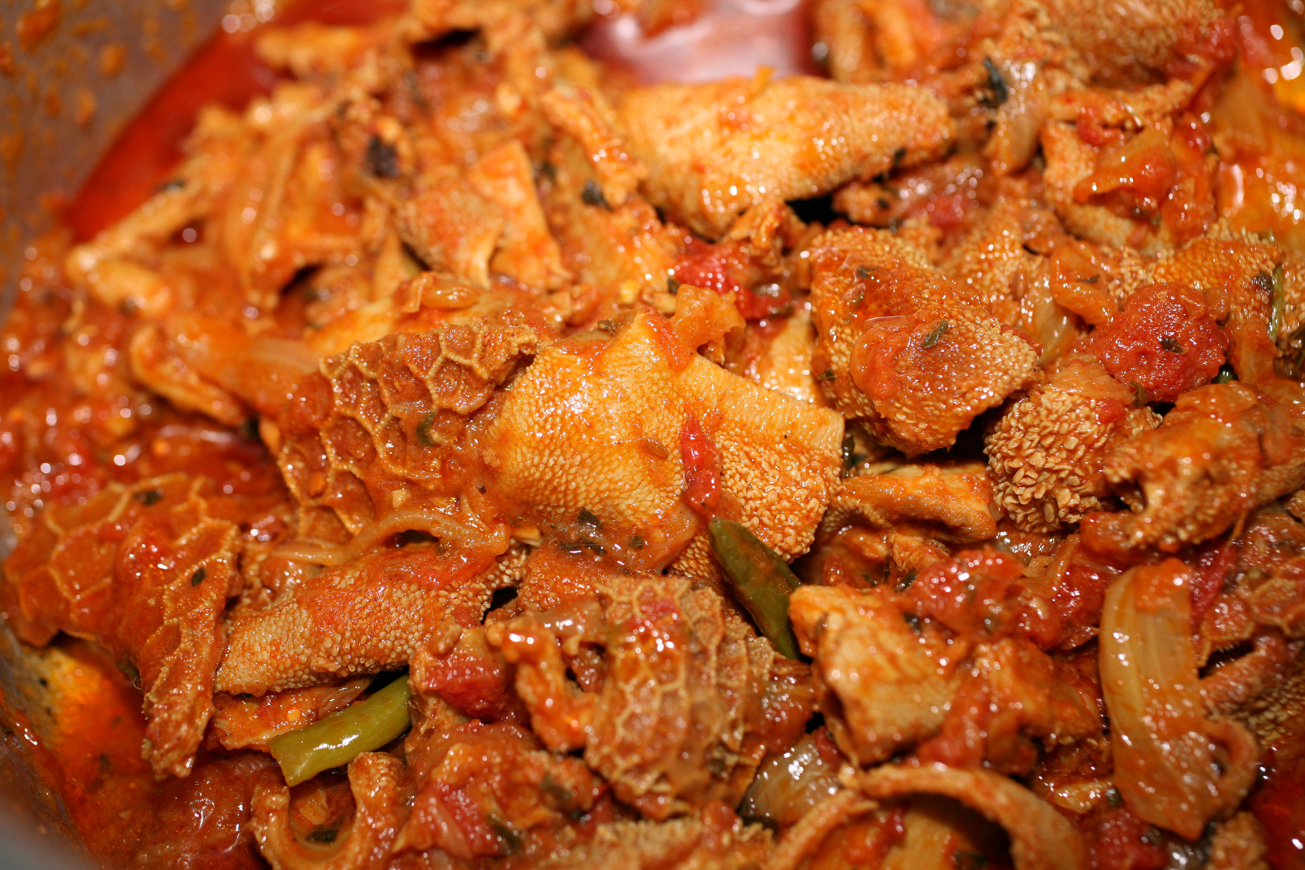 Pakistani Ojhari Lamb stomach curry